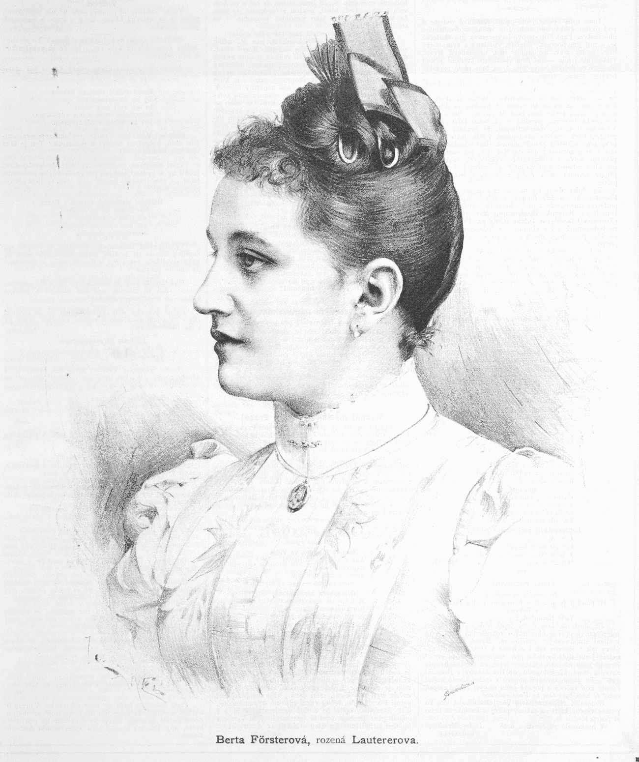 Portrait of Bertha Lauterer, Czech opera singer and wife of composer Josef Bohuslav Foerster.